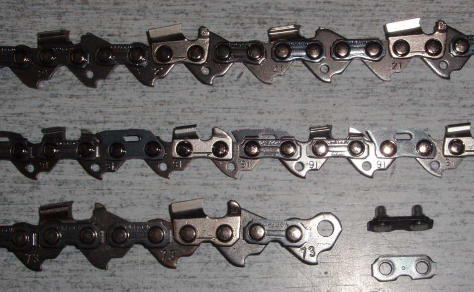 Chainsaw chains